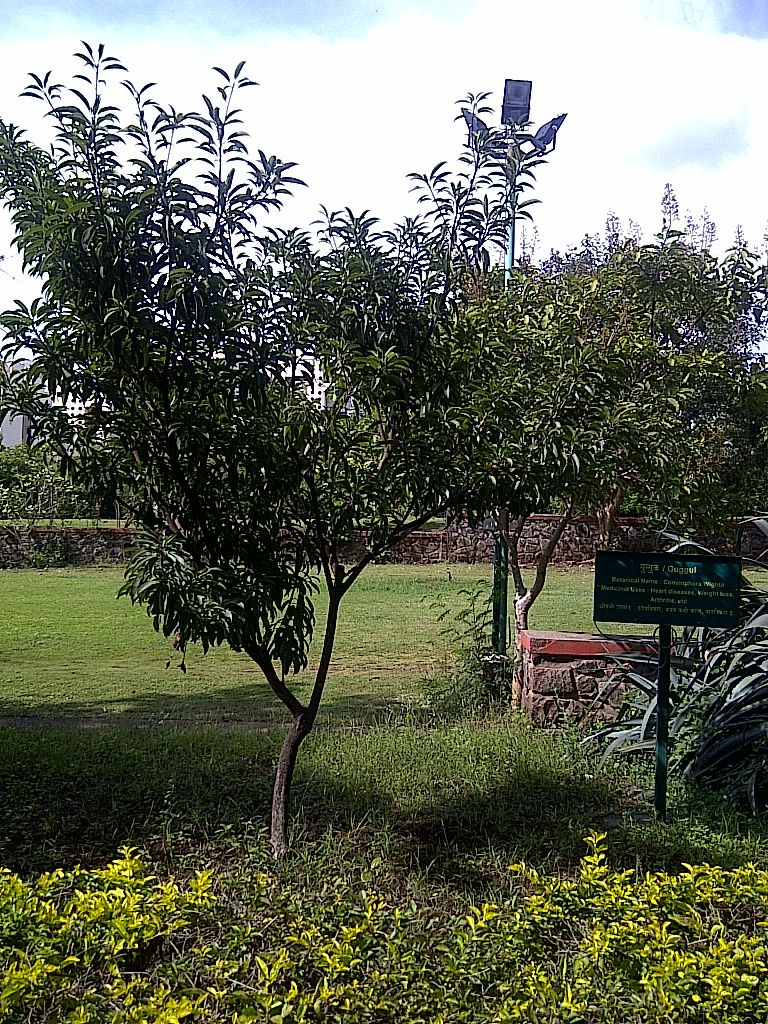 Pune, India